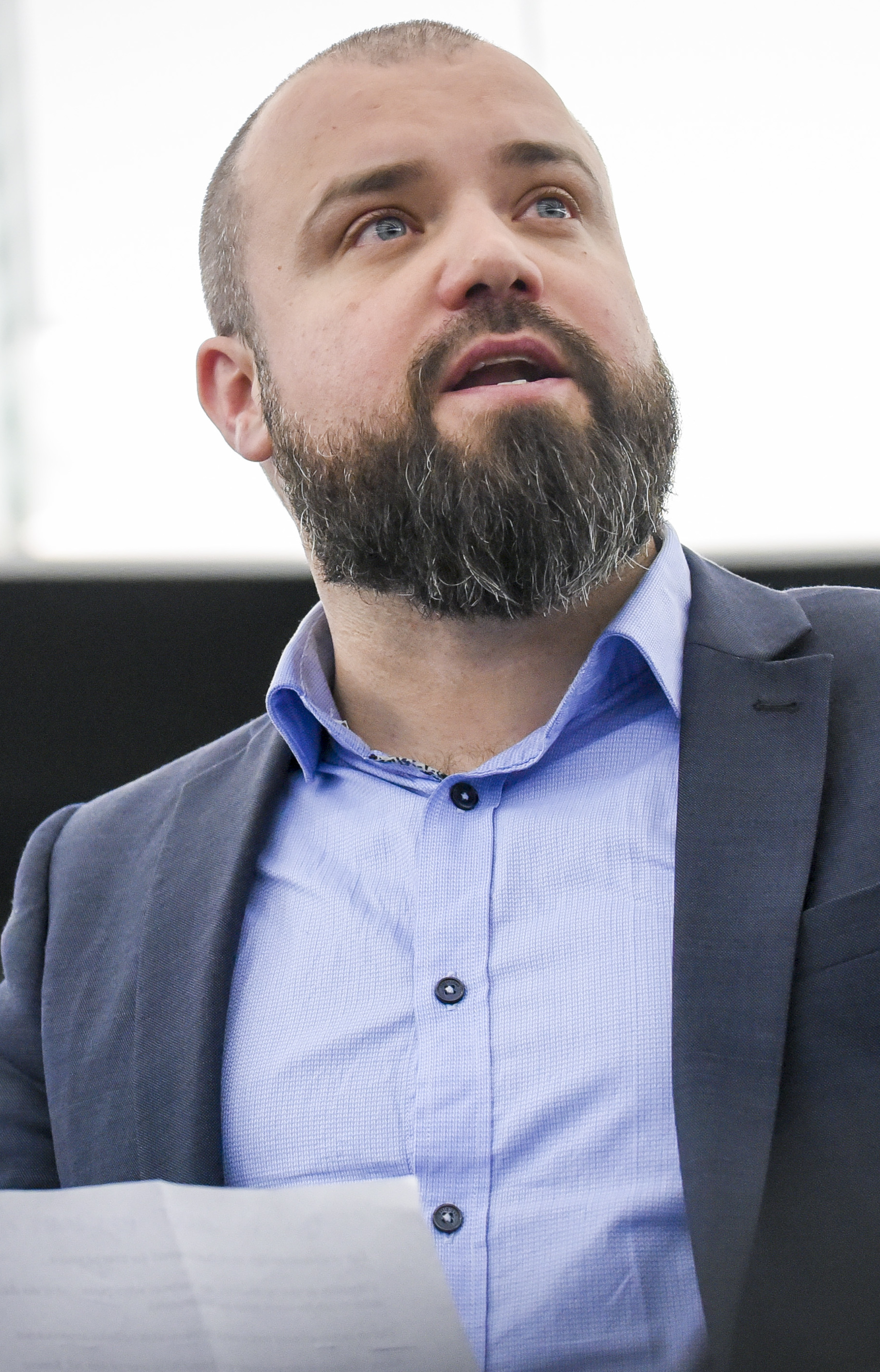 EP Plenary session - EU Pollinators Initiative